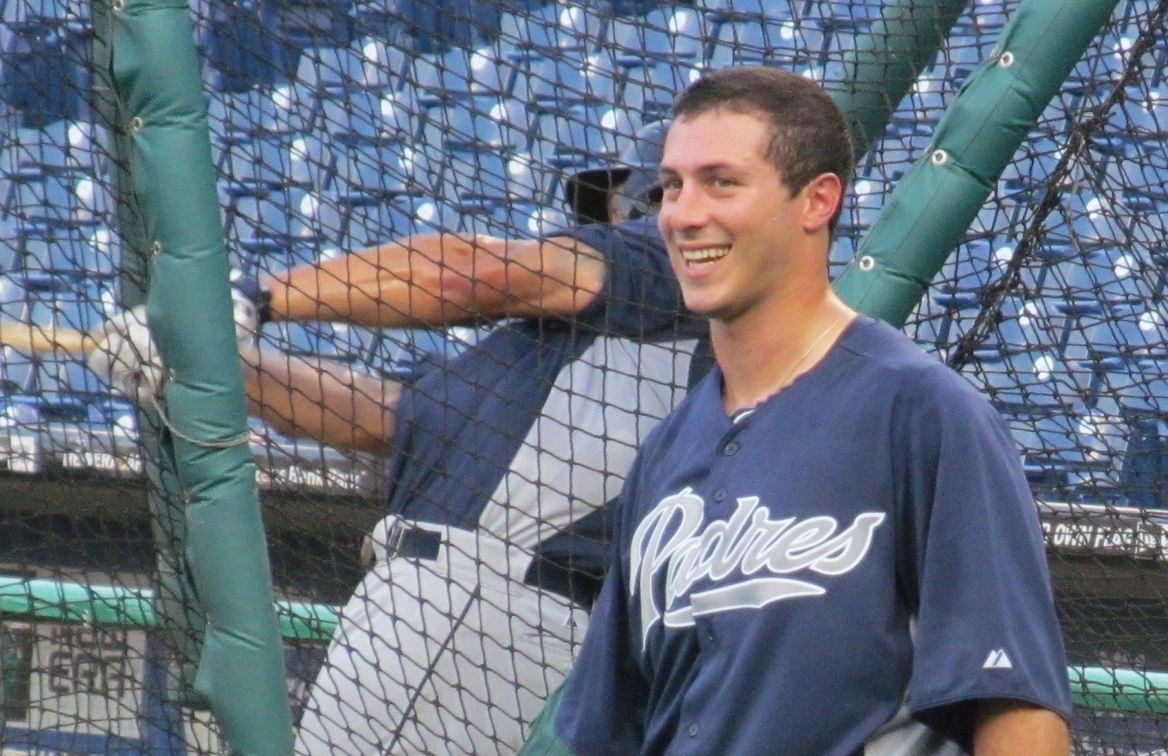 Tommy Medica during batting practice in Philadelphia PA prior to his Major League Debut.